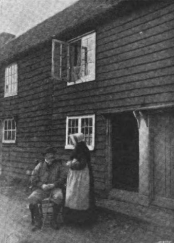 A photograph of the house in which James Murrell, a cunning man known as "Cunning Murrell", lived during the 19th century in Essex, eastern England.